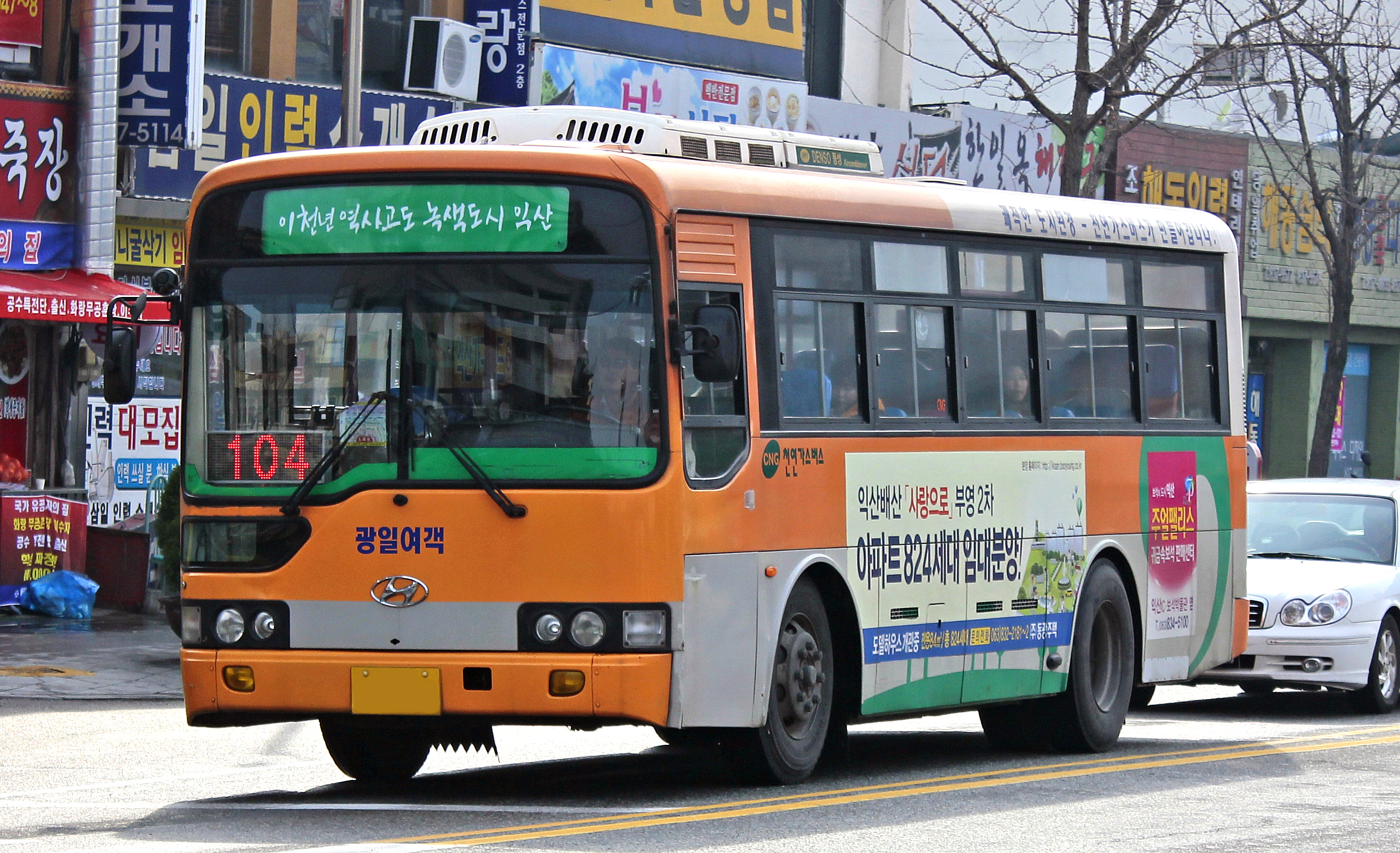 Gwangil Transit Route 104